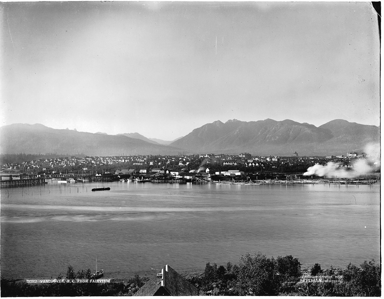 Vancouver as seen from Fairview, British Columbia, Canada, 1904